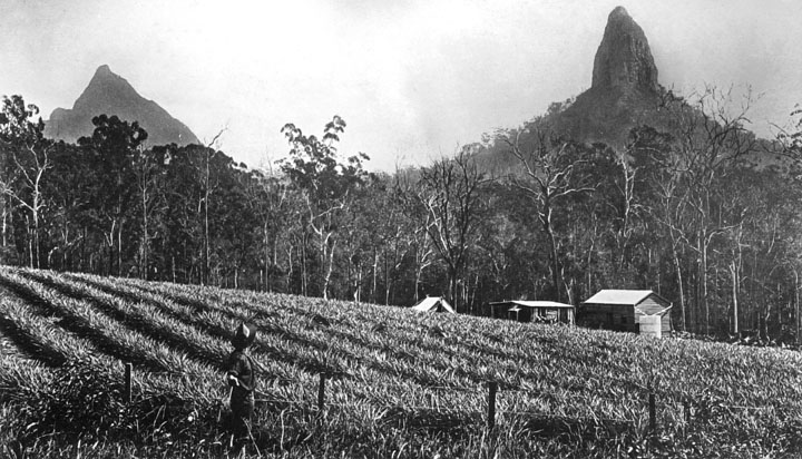 Mounts Beerwah and Crookneck (Coonowrin), Glass House Mountains. (The original photograph caption makes reference to Coonowrin Mountain.)